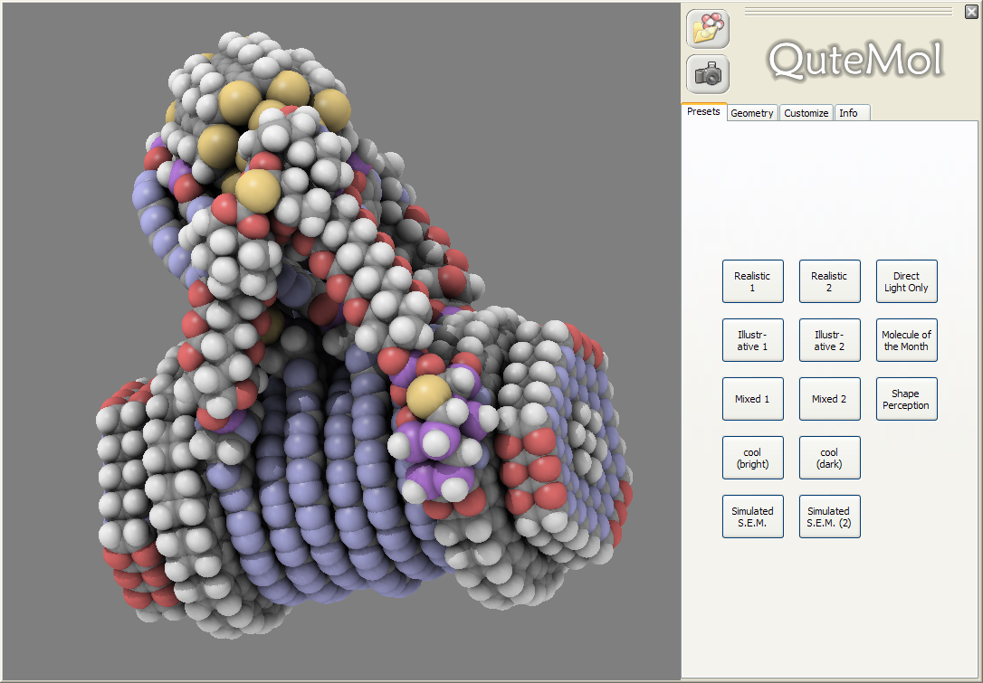 A Snapshot of the QuteMol open source software for molecular graphics